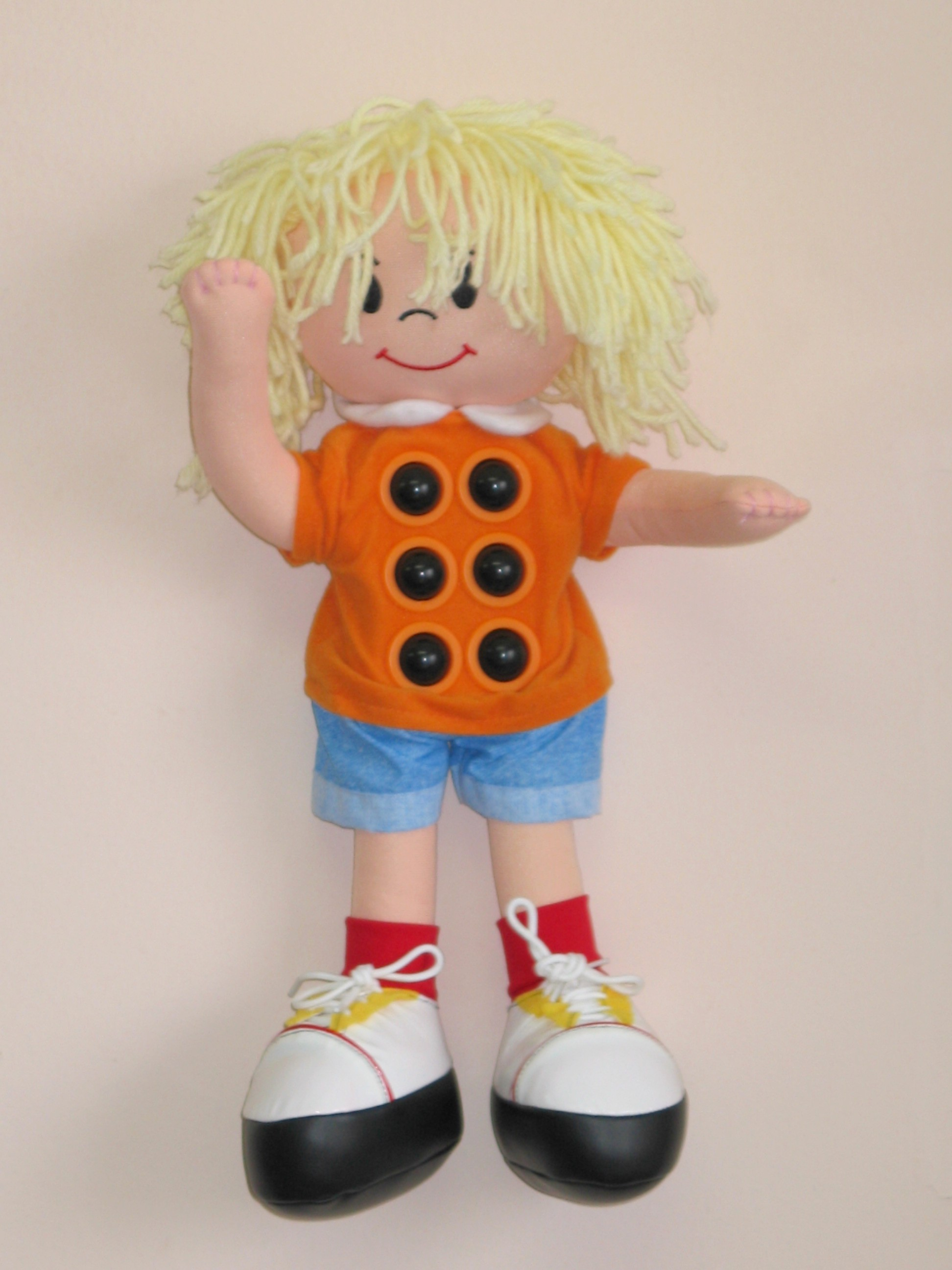 Doll for teaching BrailleEuskara: Braille irakasteko panpina